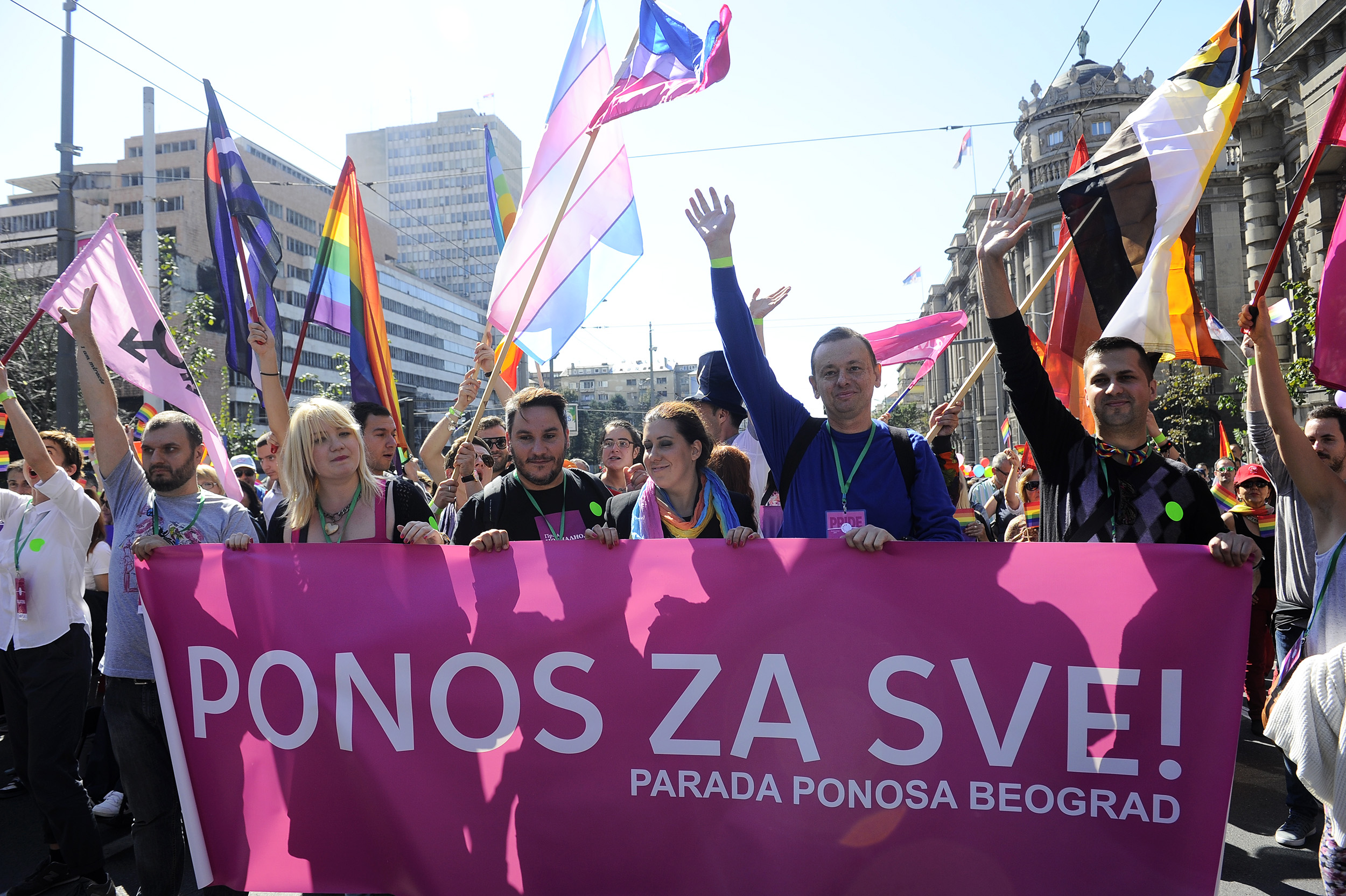 Belgrade Pride Parade 2014, September 28, 2014.